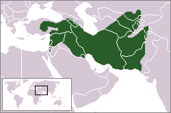 Seleucid Empire ca. 323 BCE (at the time of Alexander's death)